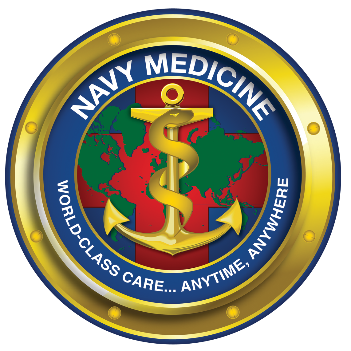 Logo of the U.S. Navy Bureau of Medicine and Surgery